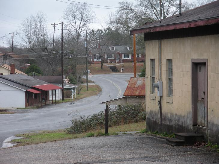 This is a picture of Jacksons Gap, Alabama